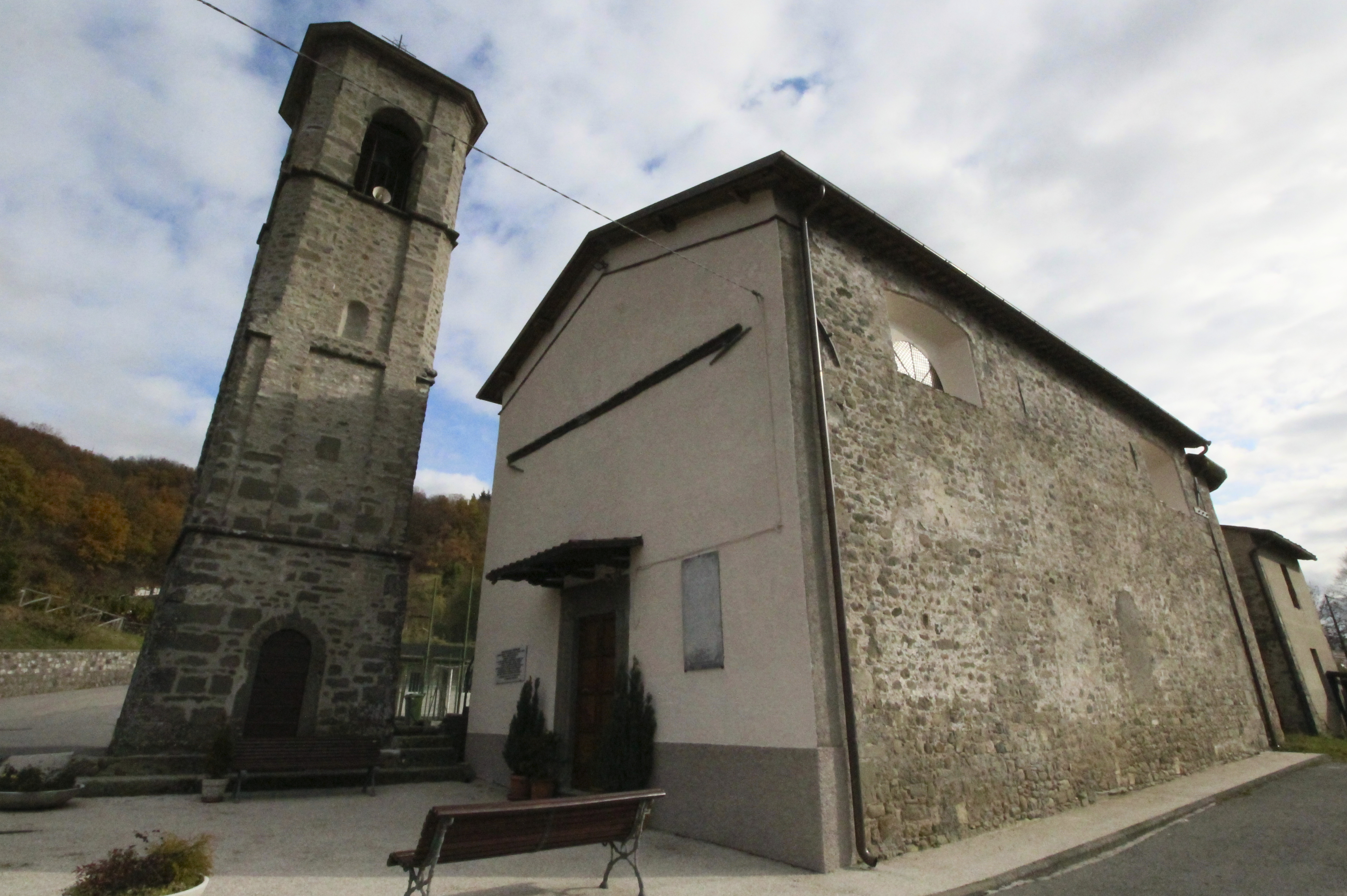 Church San Donnino, San Donnino, hamlet of Piazza al Serchio, Garfagnana, Province of Lucca, Tuscany, Italy